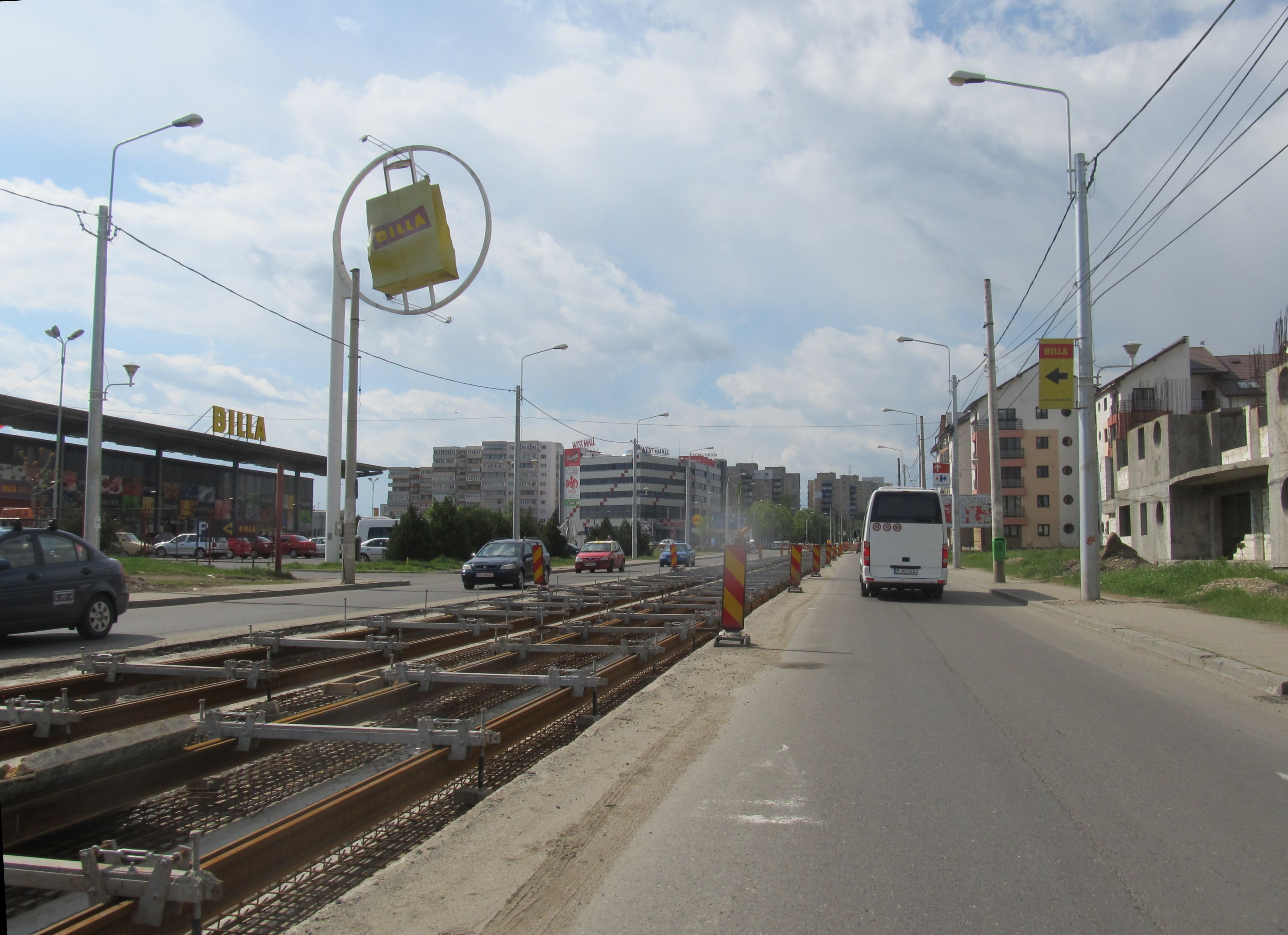 Reconstruction of tram tracks in Ploiești, Romania, April 2015. Picture taken near Ploiești West railway station.